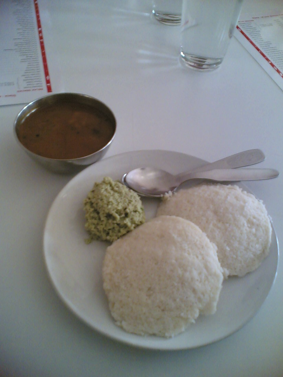 Diana is probably the most famous udupi restaurant in udupi. So their idly better be good :) and they are! great stuff. a plate costs 10Rs.